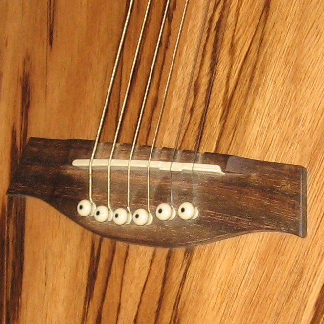 electroacoustic Ibanez's guitar bridge photo